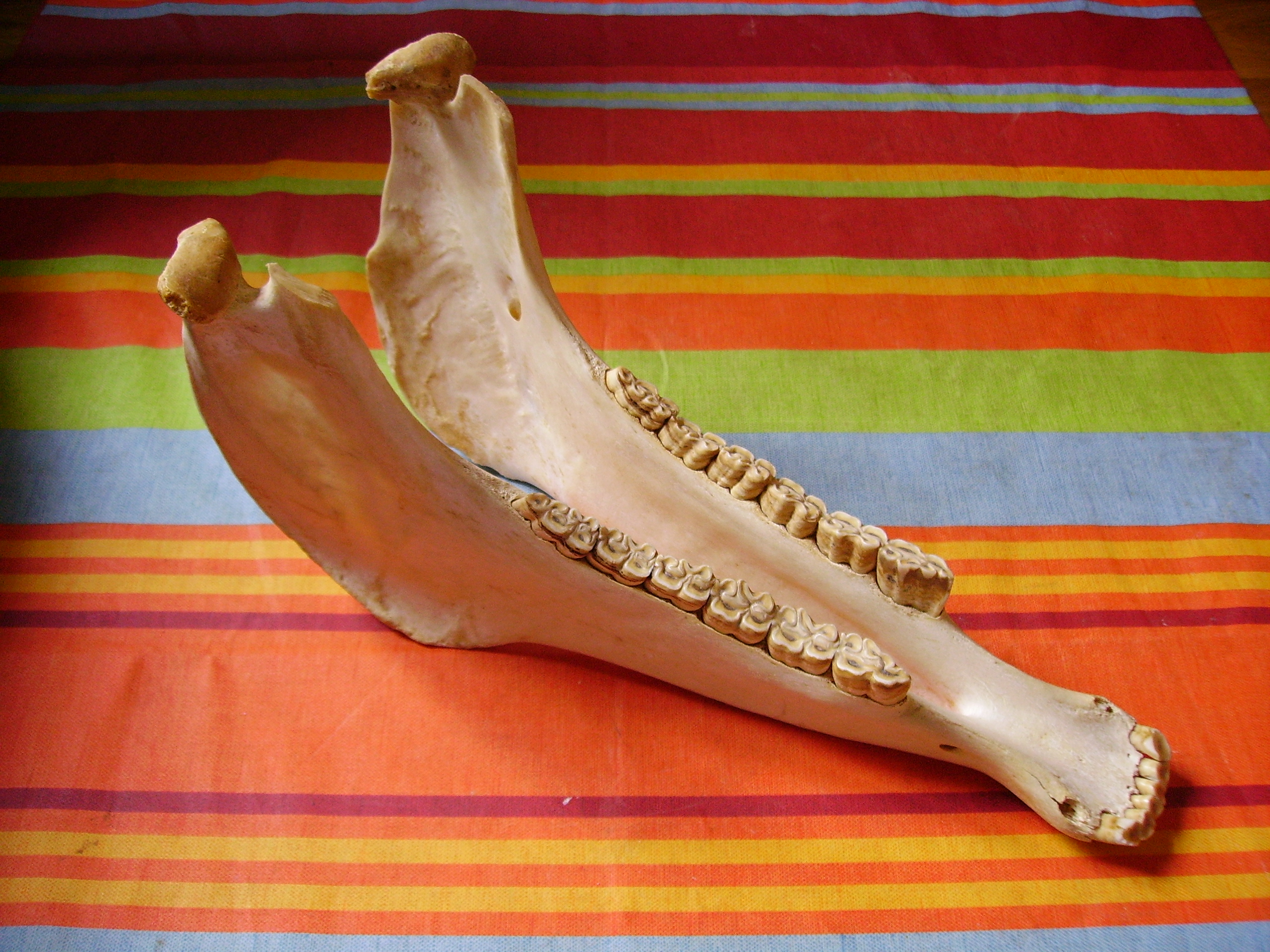 Quijada